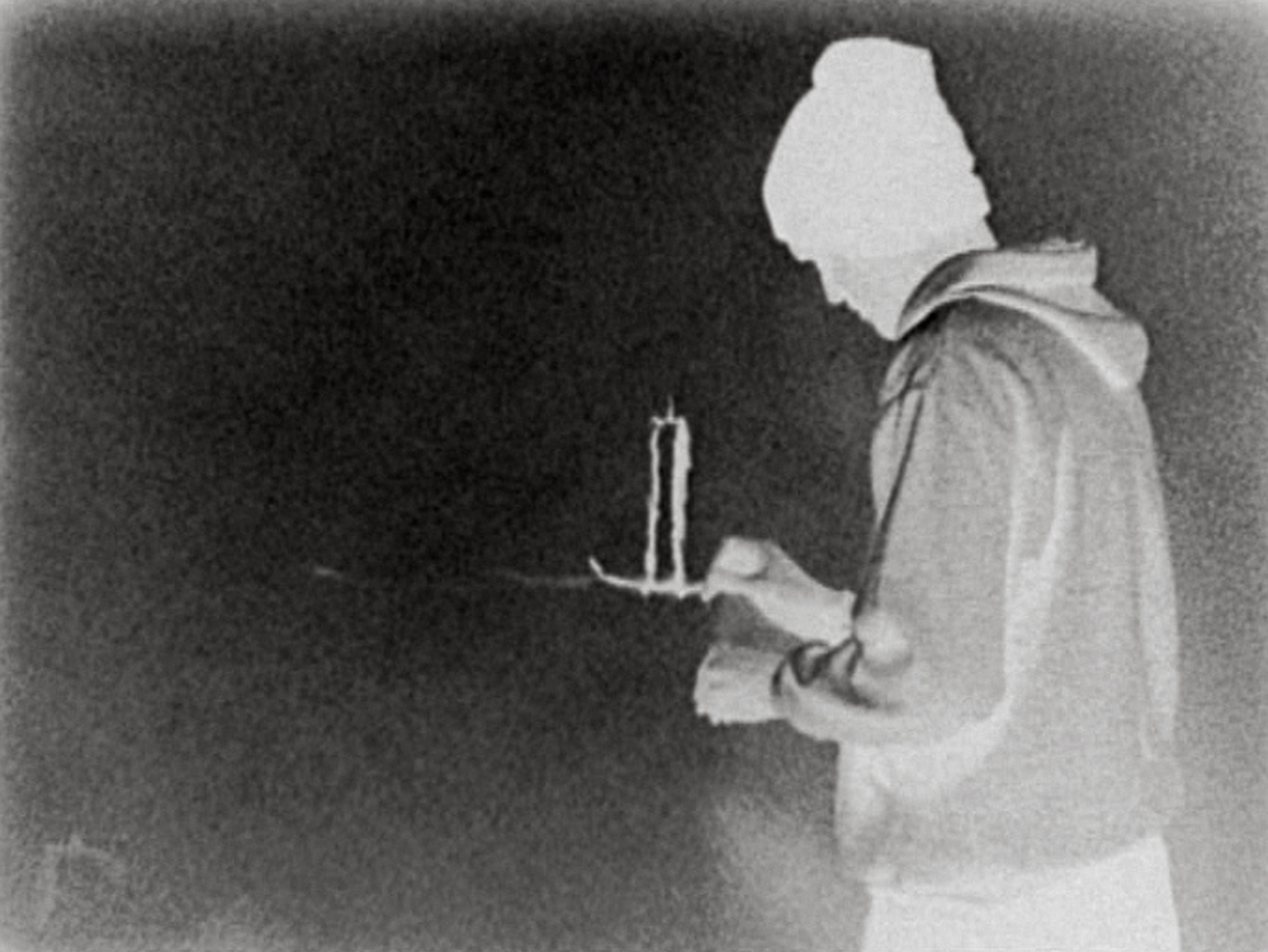 "Candle", 2007, 16mm film B/W, 4:3, 02:16min